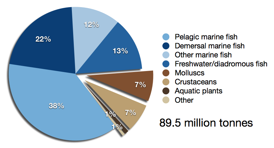 Global wild fish capture in million tonnes, 2010, as reported by the FAO. Based on data sourced from the FishStat database